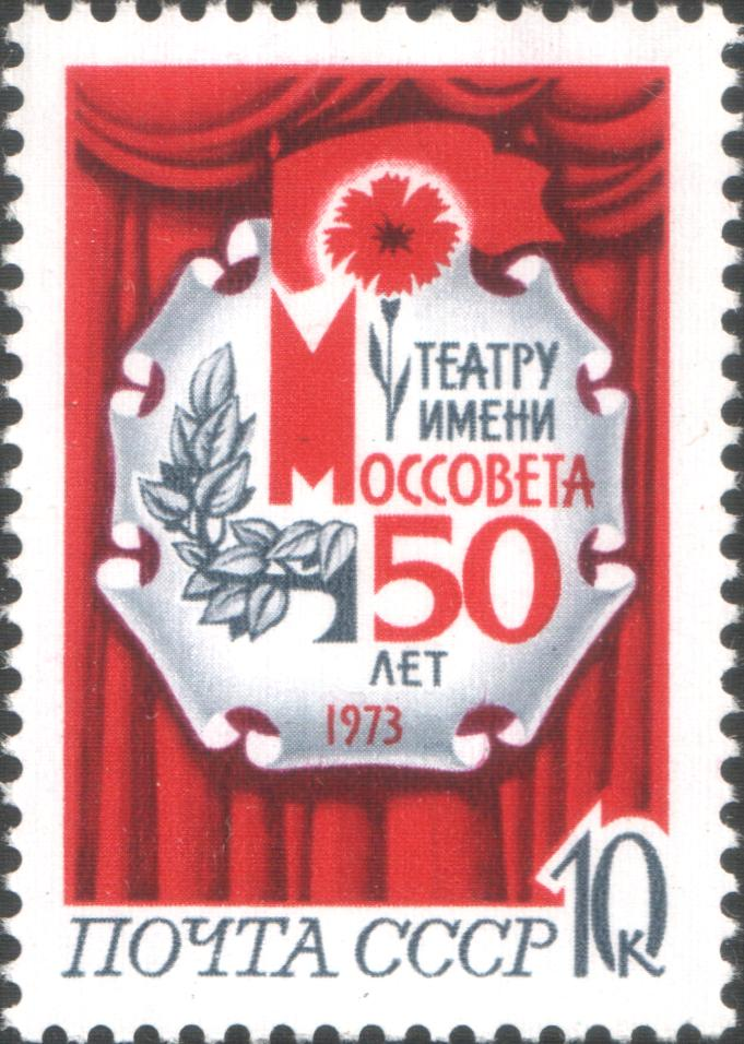 USSR stamp